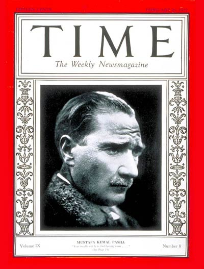 Time magazine, Vol. IX No. 8 , Feb. 21, 1927. The cover shows Mustafa Kemal Pasha.